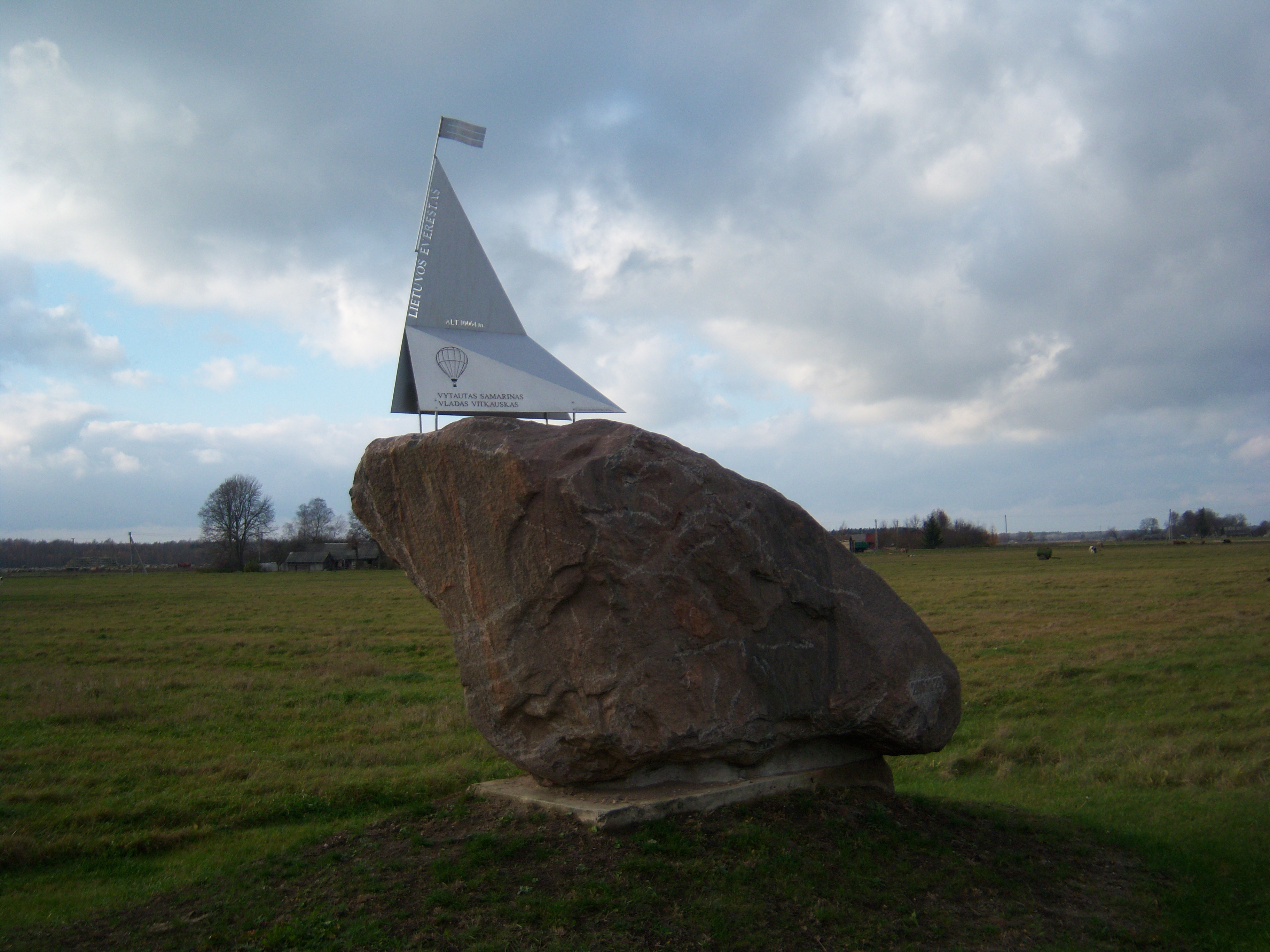 Stone in memory of air balloon record flight, Rukiškis, Anykščiai District, Lithuania